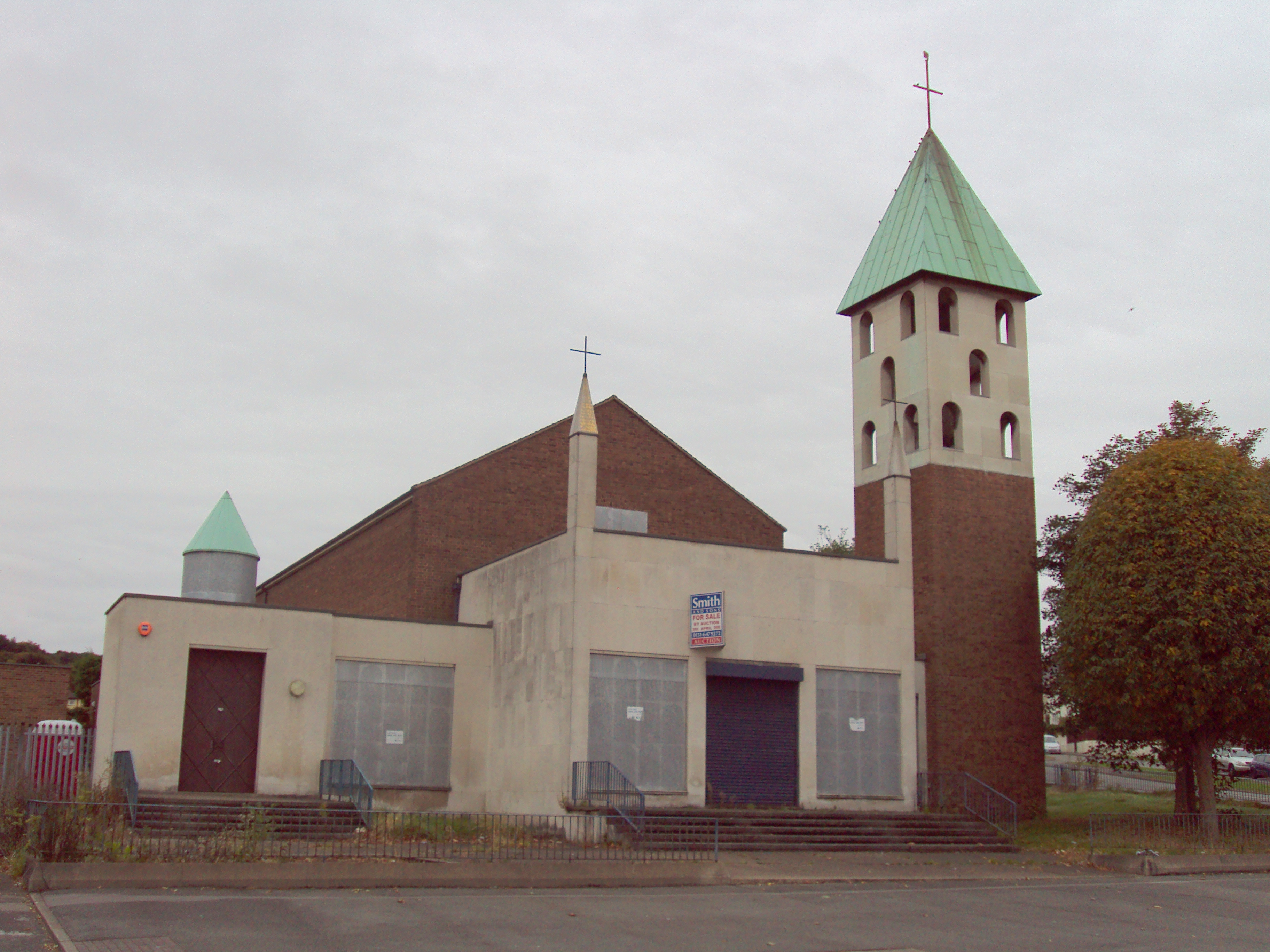 Boarded-up church (former Holy Cross Church) on the A553 Hoylake Road at Bidston, Birkenhead, Wirral, Merseyside, England.